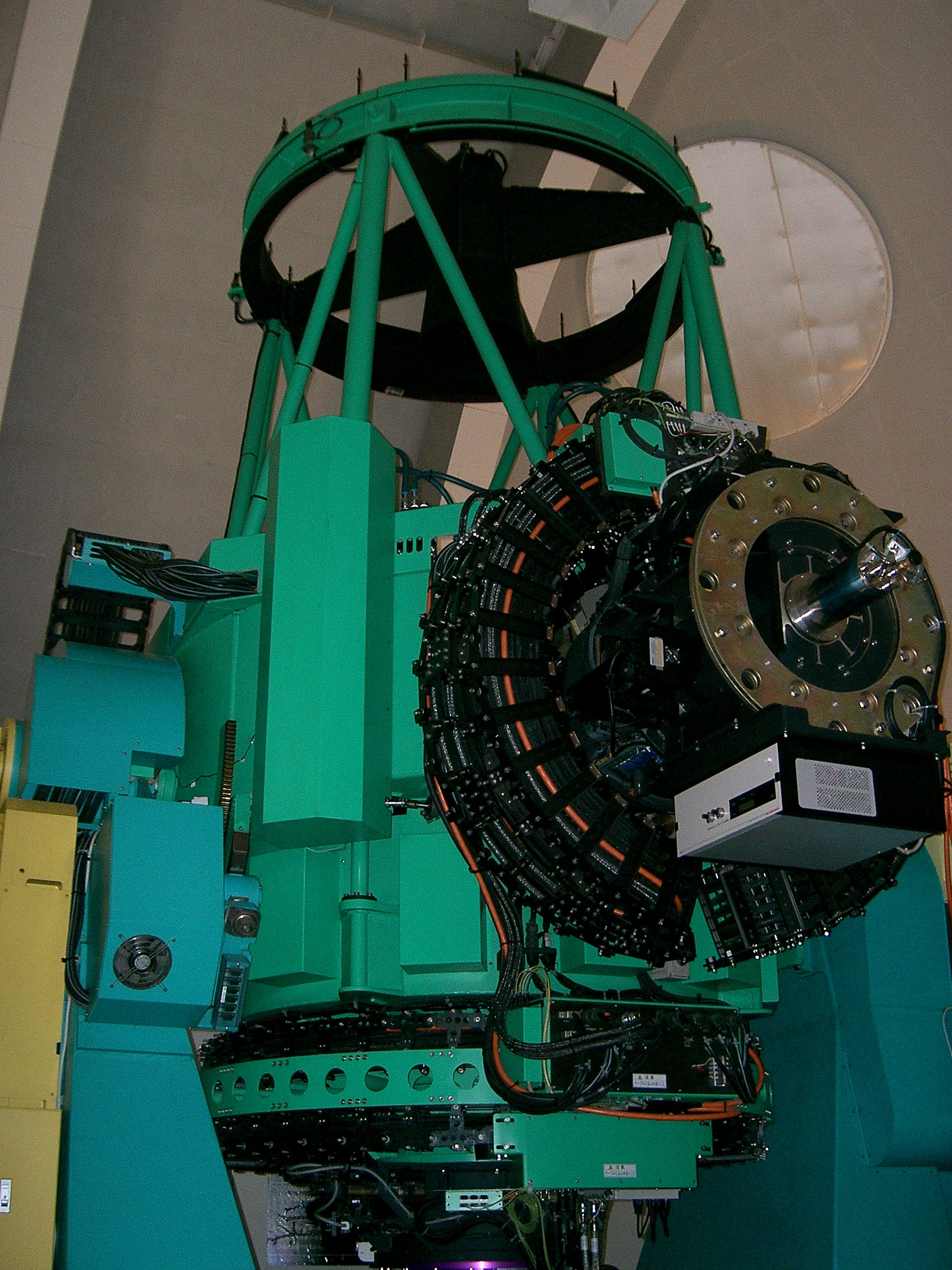 150-centimeter reflecting telescope in 11-meter dome of Gunma Astronomical Observatory (GAO)